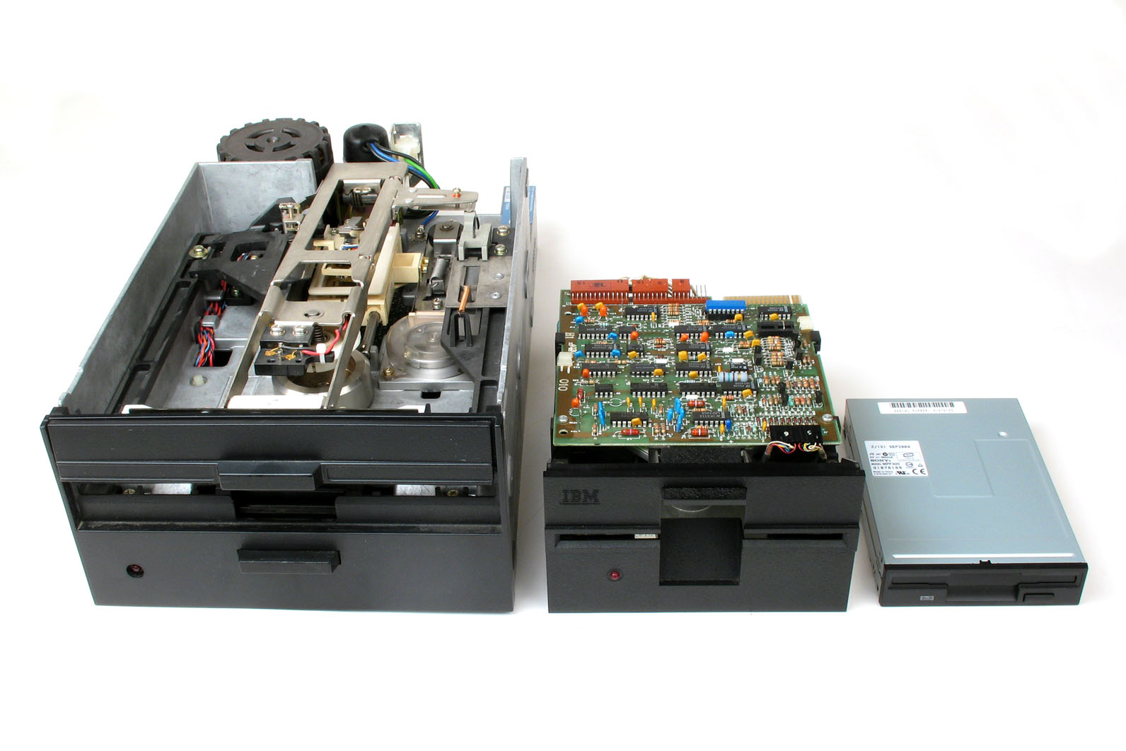 Floppy Disk Drives. Qume D/T 8, 8 inch drive, 1.2 MB. This drive was made in 1980. See Image:Floppy Disk Drive 8 inch.jpg Tandon TM 100-2A with IBM logo, 5 ¼ inch drive, 360 KB. This drive was made in 1983. See Image:IBM Floppy Drive With DOS.jpg Sony MPF920, 3 ½ inch drive, 1.44 MB. This drive was made in 2004. This image is used by IBM to illustrate their Icons of Progress: The Floppy Disk article. image 2 Taken with a Canon PowerShot A630 (1/5 second and f/8) under tungsten lighting. The image was touched up with Adobe Photoshop Elements 5.0.